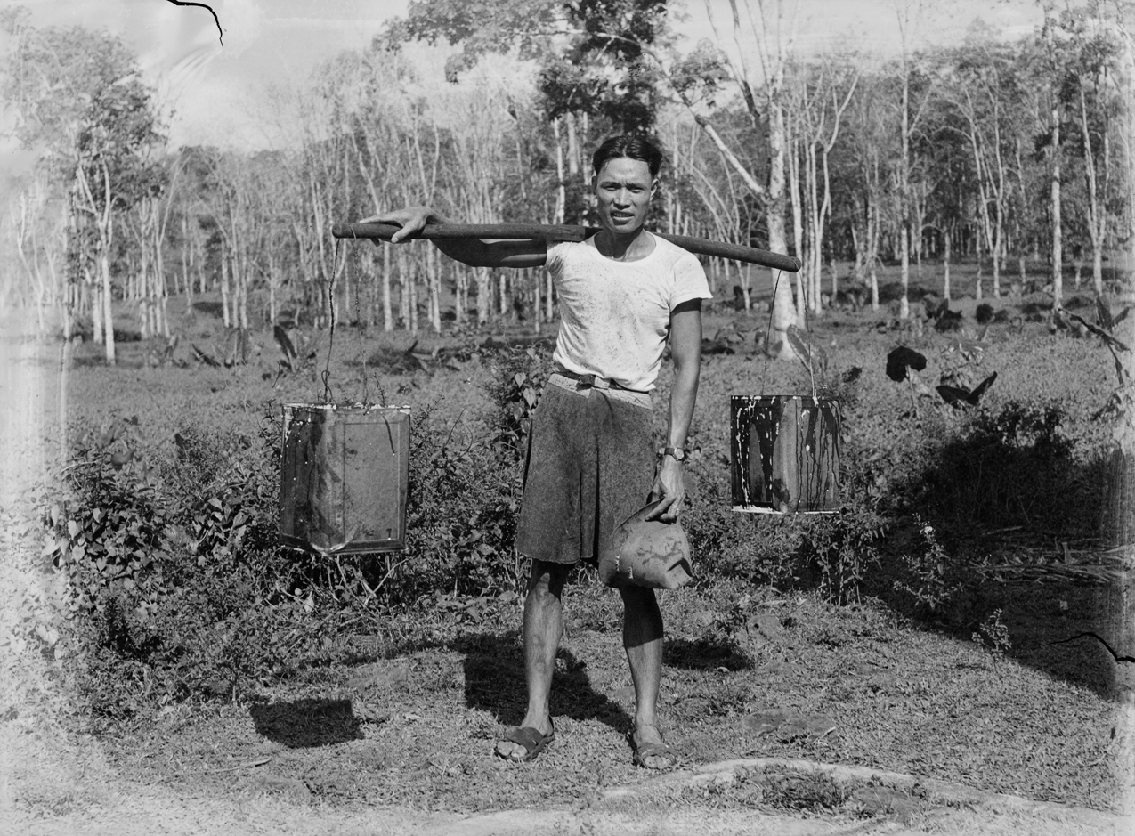 The man is standing on the grass.